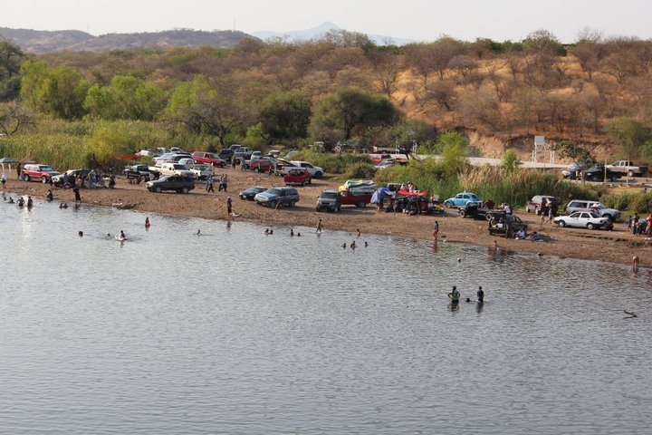 Balsas River in Tepalcatepec, Michoacán.